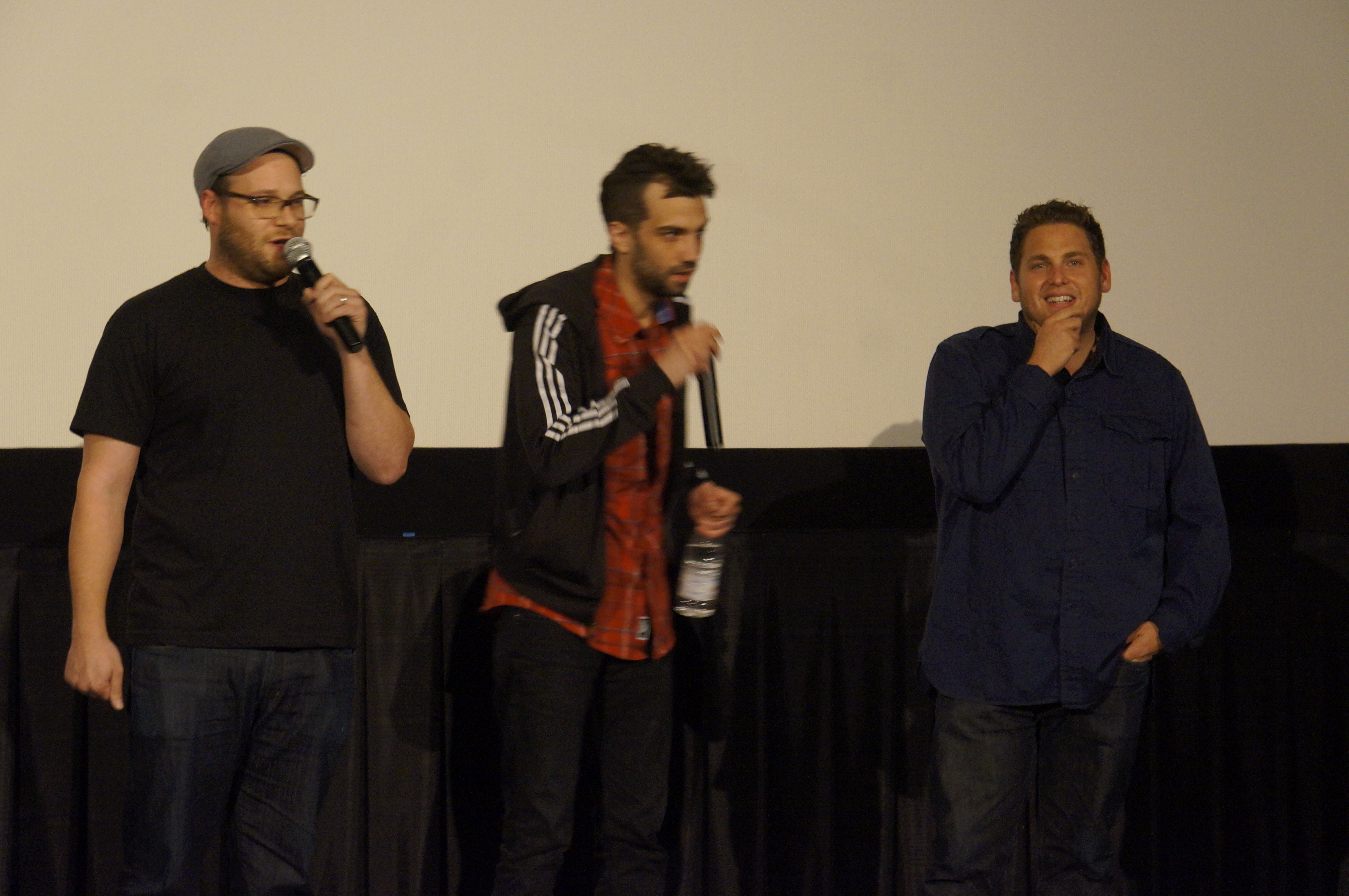 Seth Rogen, Jay Baruchel, Jonah Hill at the screening of "This Is the End" in June 12, 2013